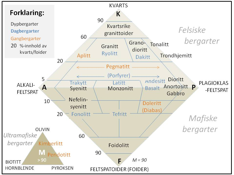 QAPF-diagram in Norwegian language, made on PowerPoint software. Black letters = plutonic. Blue letters = volcanic. Orange letters = intrusive/mantelic. . The small triangle to the left is the representation of the Ultramafic stones (90-100 % Mafic).